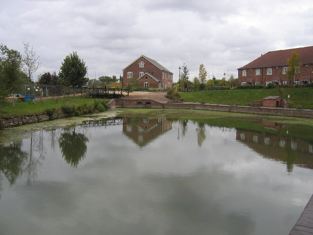 Over Basin. The restored basin of the Hereford and Gloucester Canal. The temporary bridge in the corner is the location of the yet to be restored lock into the River Severn. The newly built Wharf House in the centre of the picture was constructed by the canal restoration society and now houses a shop and a very smart restaurant. Soon it will also provide accommodation.